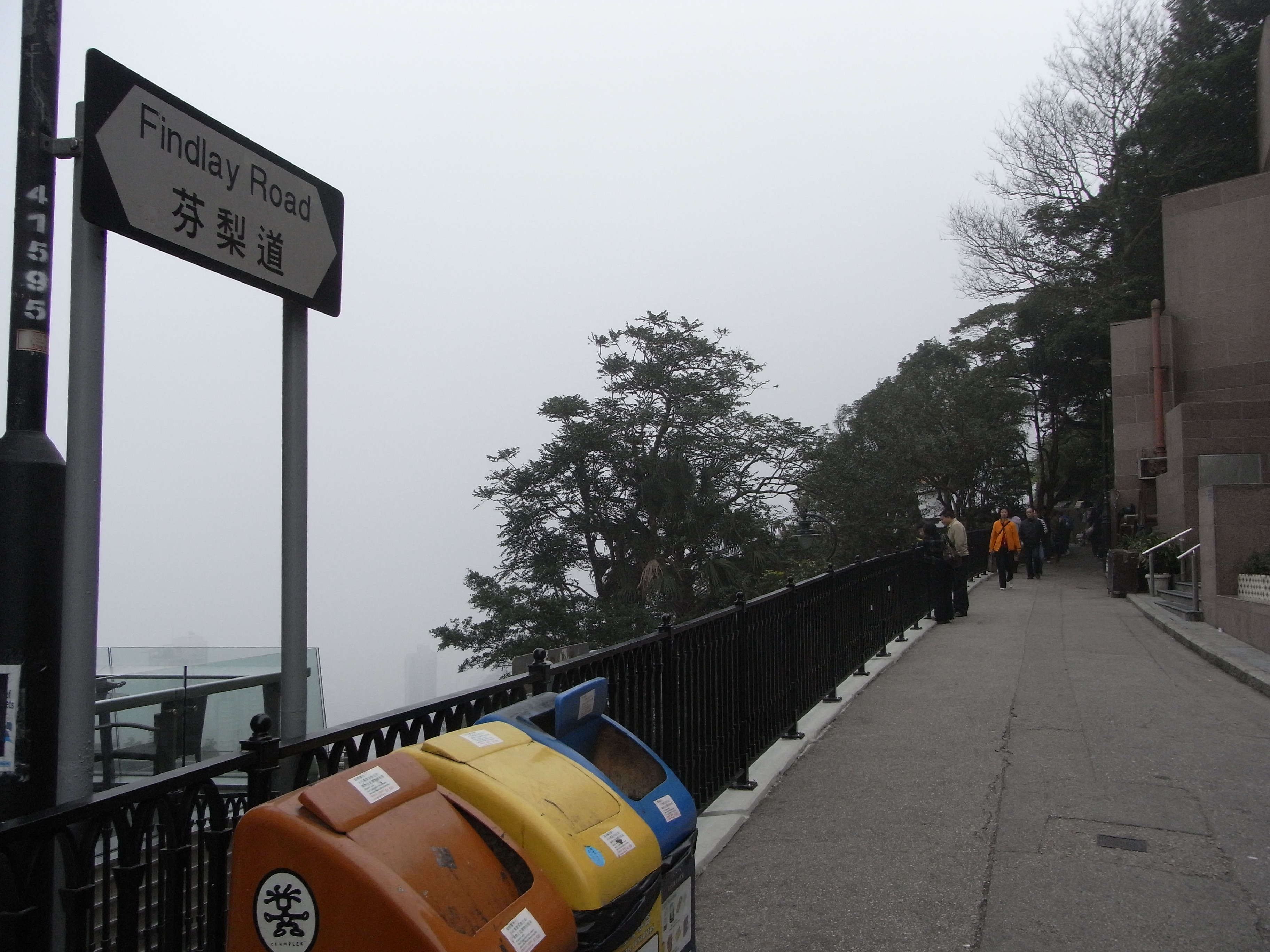 香港太平山山頂 芬梨道 大霧